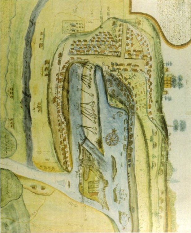 Map of Skien, Norway. Probably from early 18th century